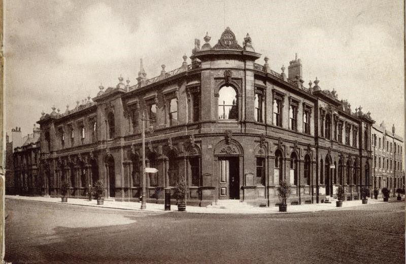 Old photograph of the old Wigan Town Hall